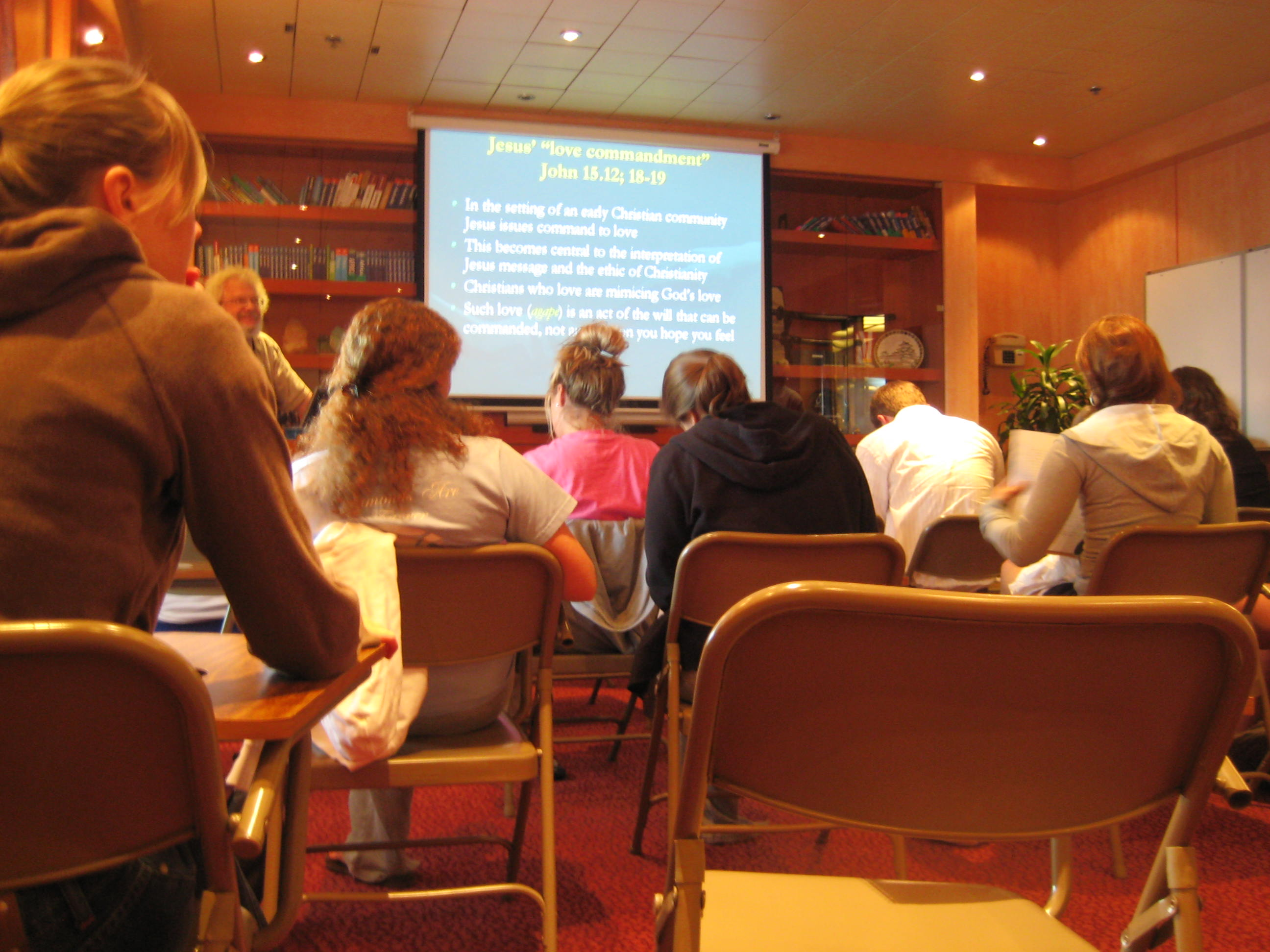 religion classroom